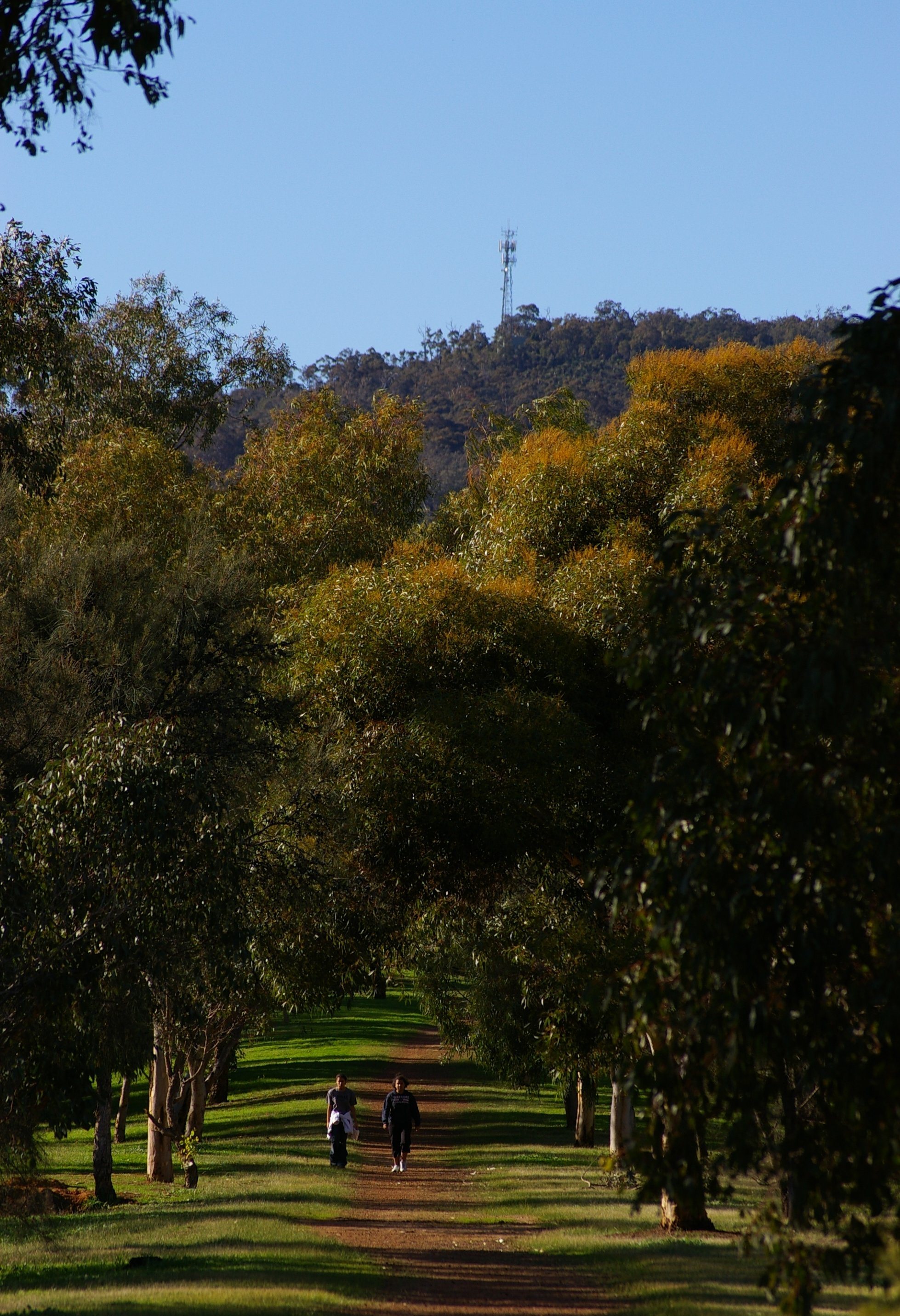 Rail reserve from the Eastern Railway (Western Australia) in Bellevue, with Greenmount Hill in the background